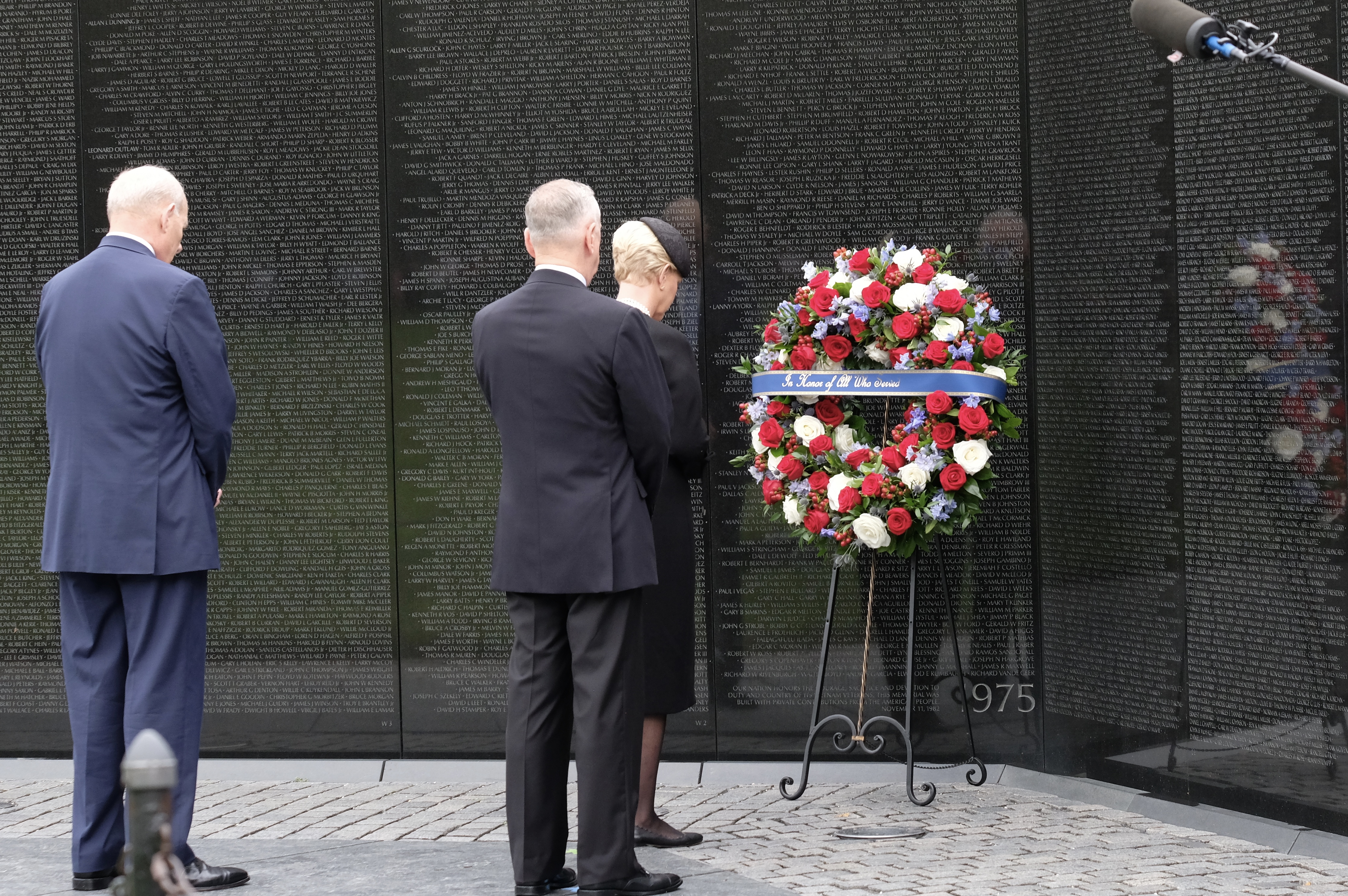 In honor of Senator John McCain, his wife Cindy and family laid a wreath at the Vietnam Veterans Memorial accompanied by Defense Secretary James Mattis and White House Chief of Staff John Kelly. Photo credit Tami A Heilemann DOI